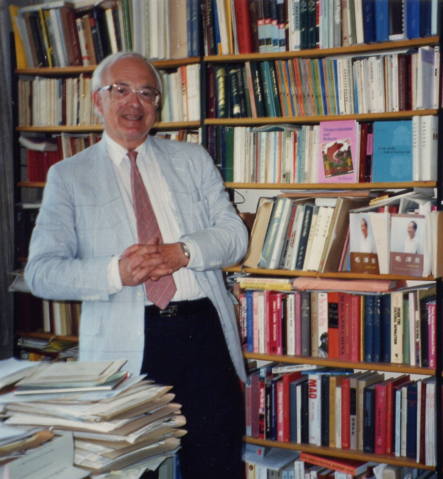 Professor Stuart Schram in his office at SOAS, London. Summer 1989.